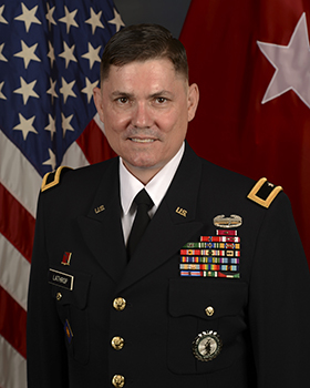 Brig. Gen. John W. Lathrop, Commander, TAAC-South